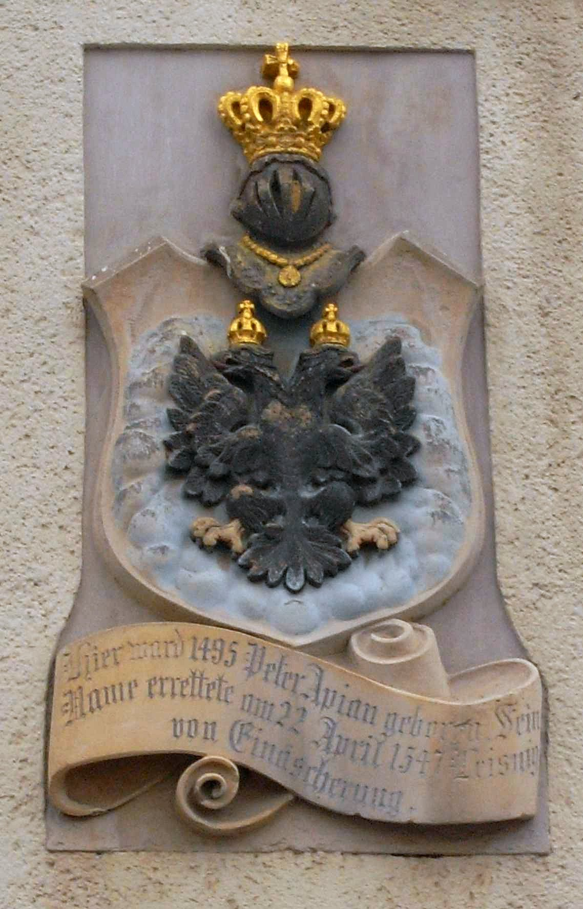 Coat of arms of nobility Apian Peter Apian, German humanist (1495-1552), Leisnig market-place house no. 13